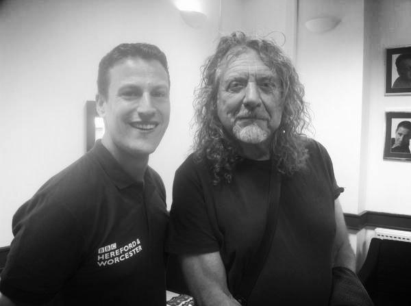 Andrew Marston with Led Zeppelin frontman Robert Plant